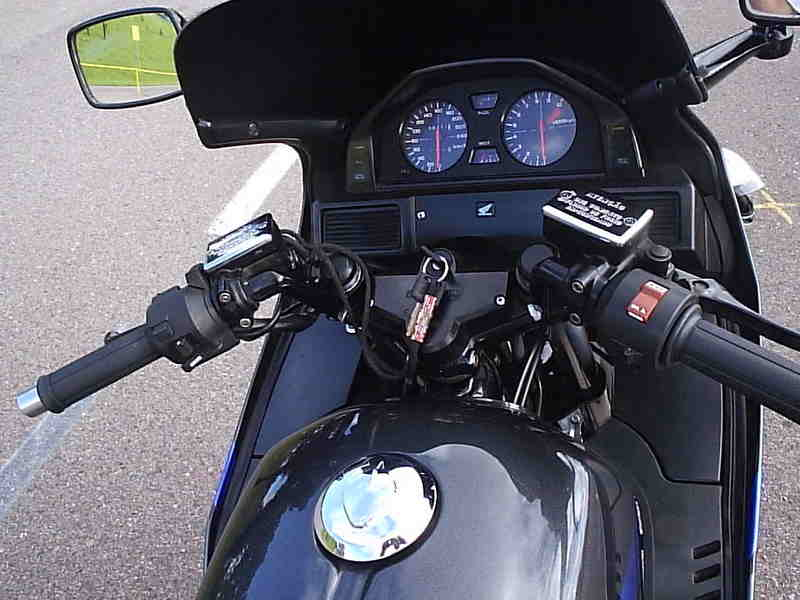 CBX 750 Indy dashboard